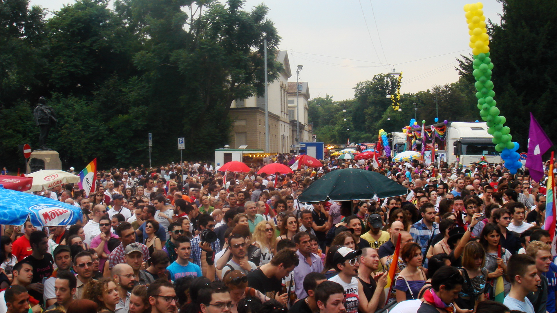 The local Gay Pride march in Milan (June 12, 2010).